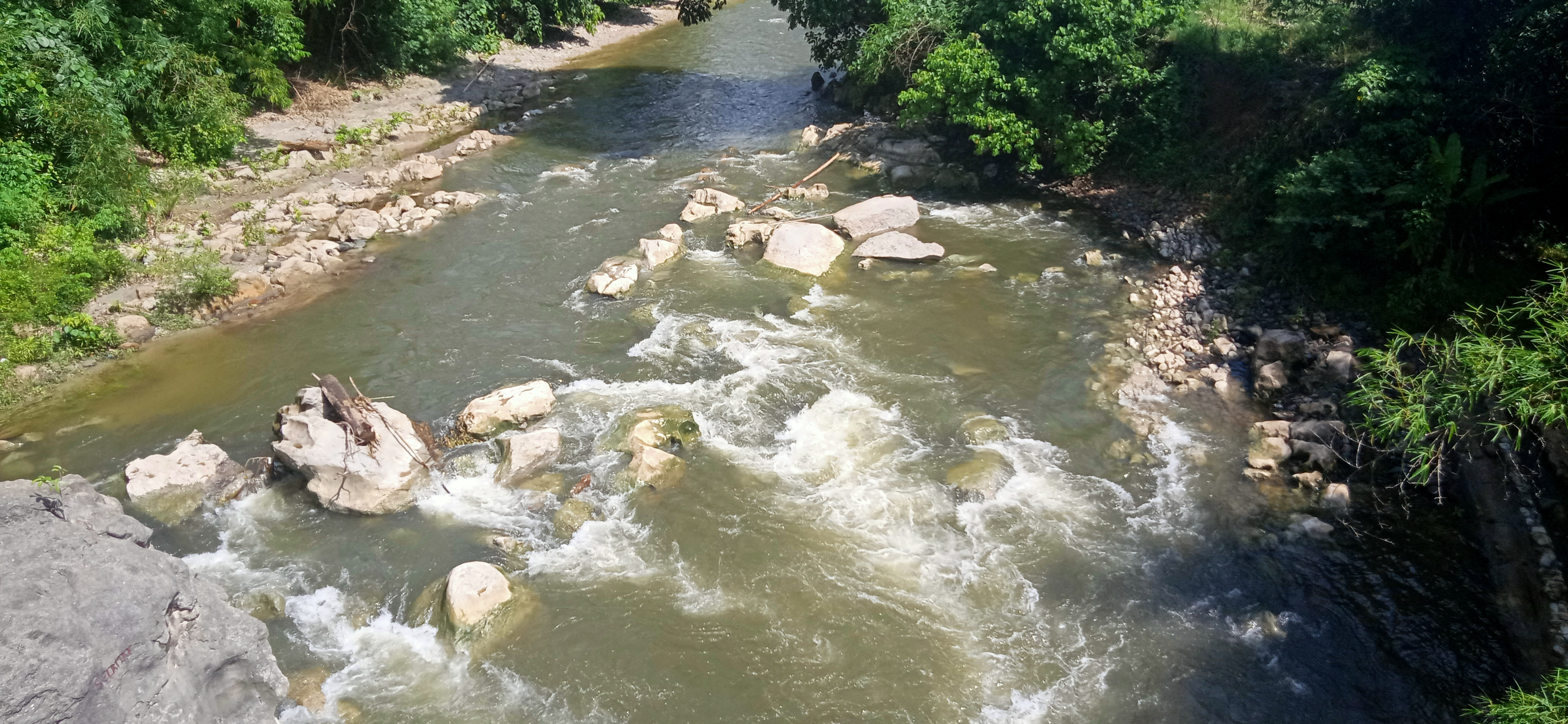 This is Batang Alai River is one freshwater river in Nateh area